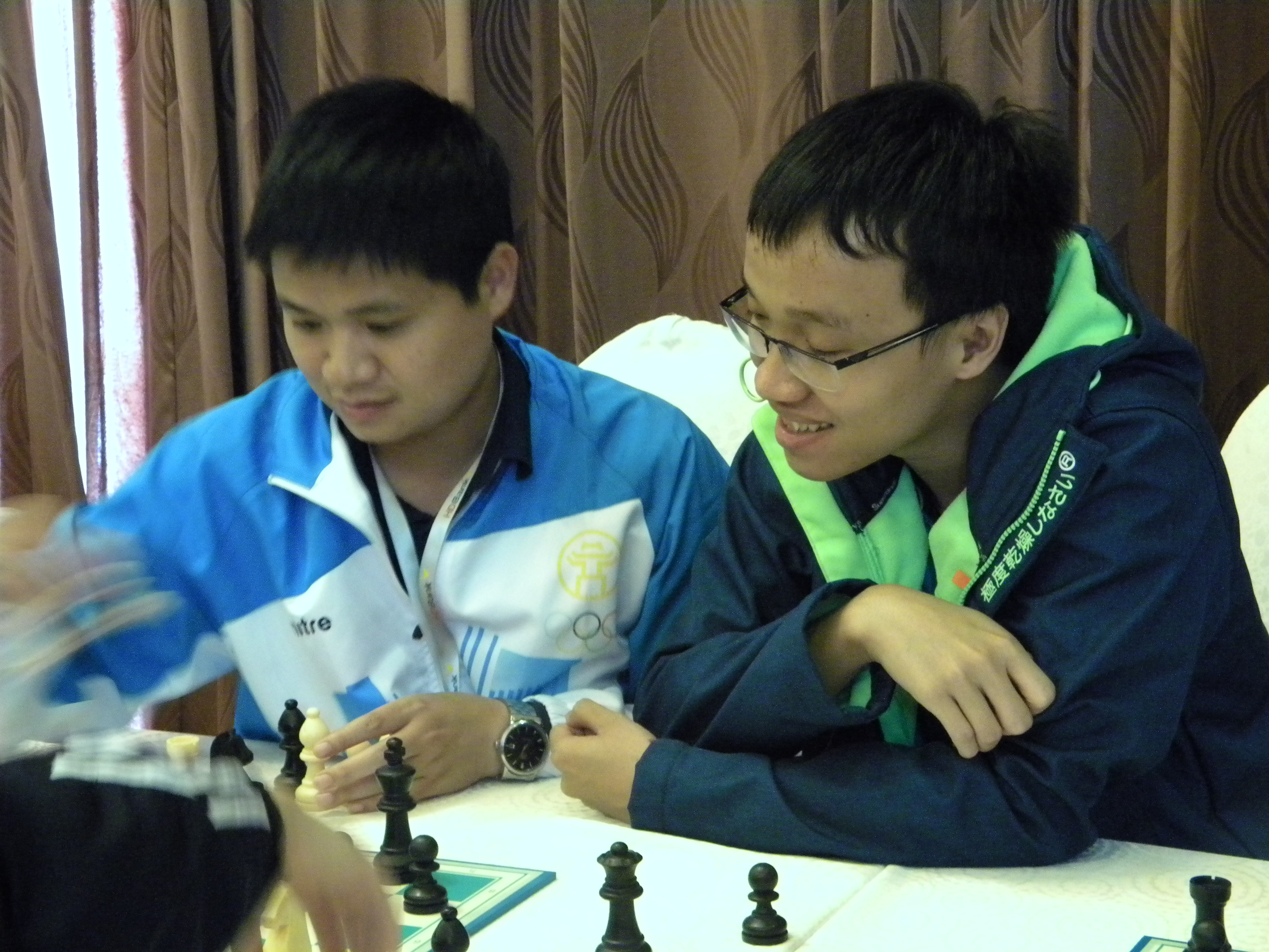 Nguyen Ngoc Truong Son (right) and Nguyen Van Huy (left), round 3 HDBank chess tournament 2016